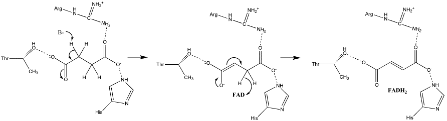 This is the E1cb succinate oxidation mechanism found in Succinate Dehydrogenase